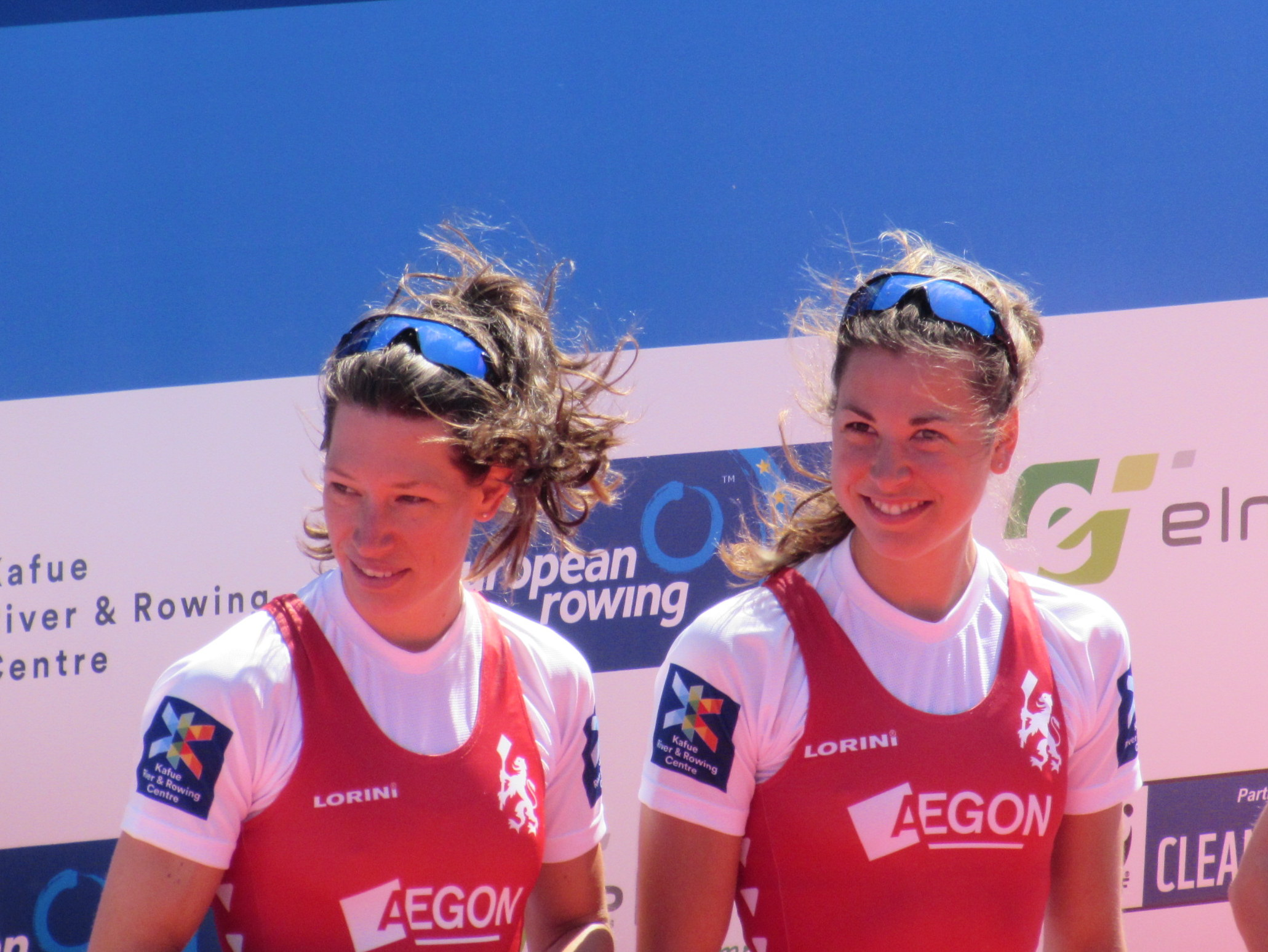 Ilse Paulis (right) and Maaike Head (left) at the 2016 European Rowing Championships in Brandenburg an der Havel, Germany